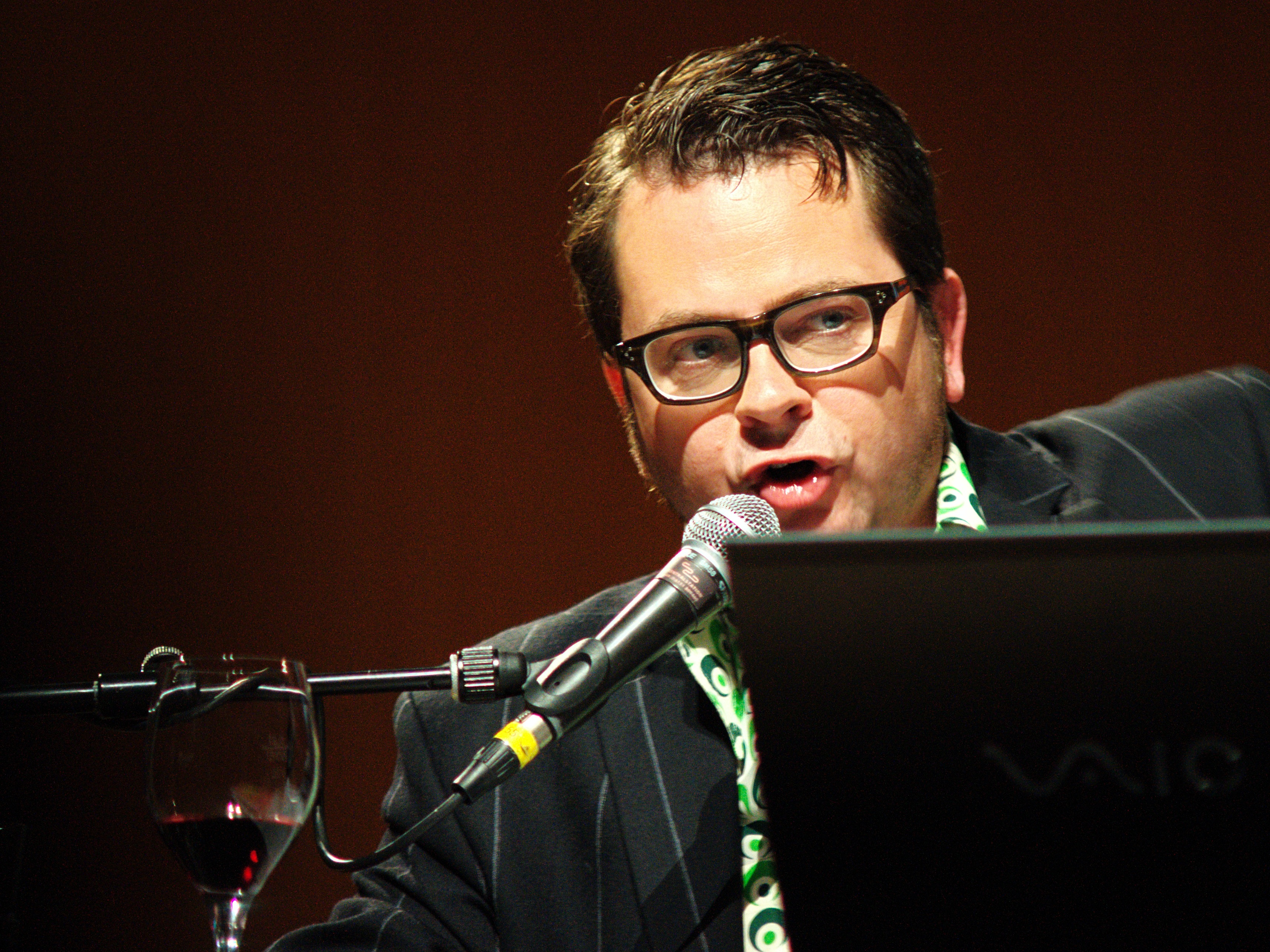 German satirist Oliver Maria Schmitt